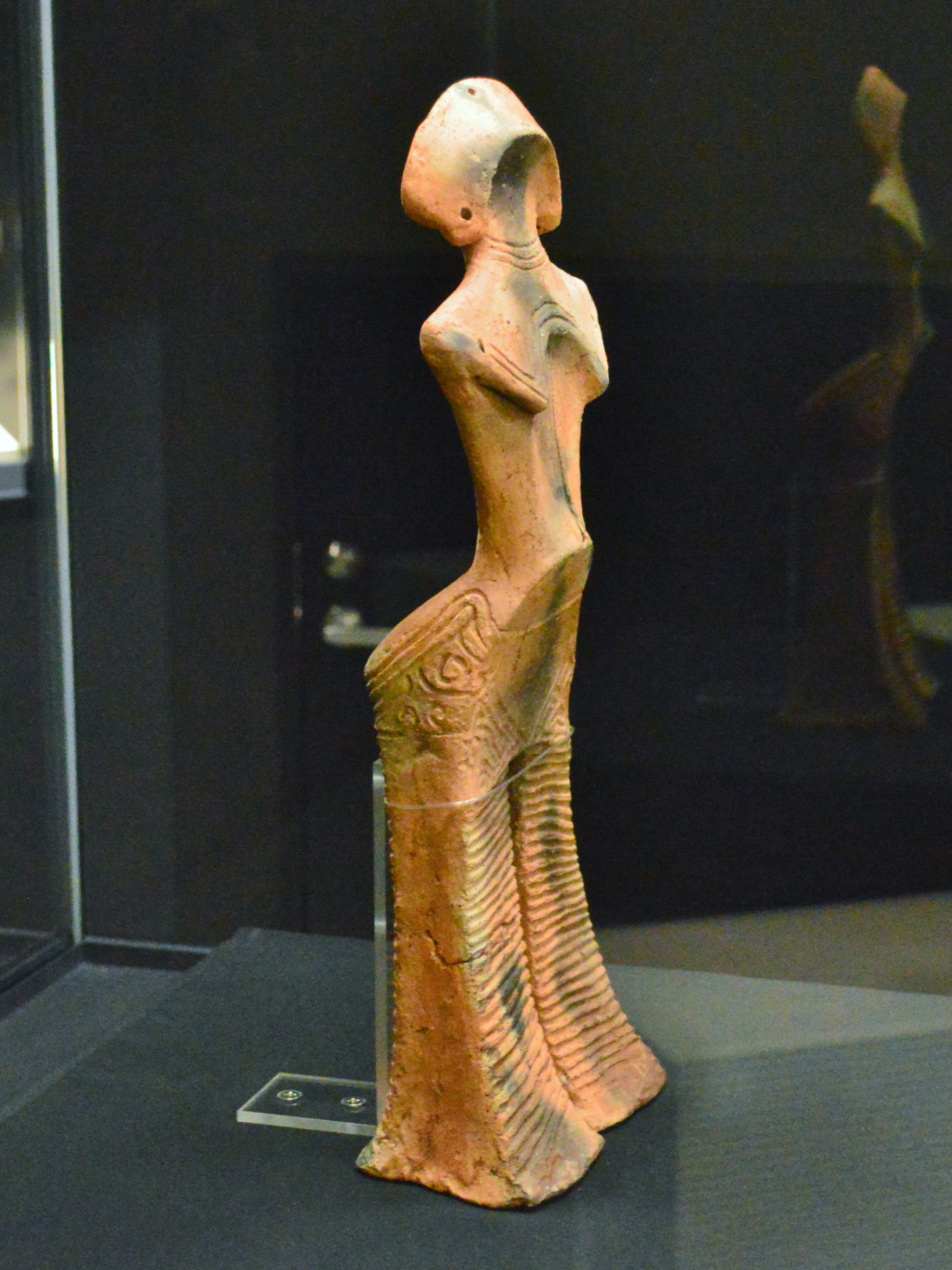 Dogu Figurine, Known as the “Jomon Goddess”. Middle Jomon period, 3000–2000 BC.. Excavated from Nishinomae site in Funagata-machi,Yamagata. National Treasure. Yamagata Prefecture (housed at Yamagata Prefectural Museum)